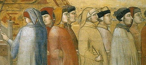 Lorenzetti_Amb._good_government_detail. Group portrait of members of the 24's Council